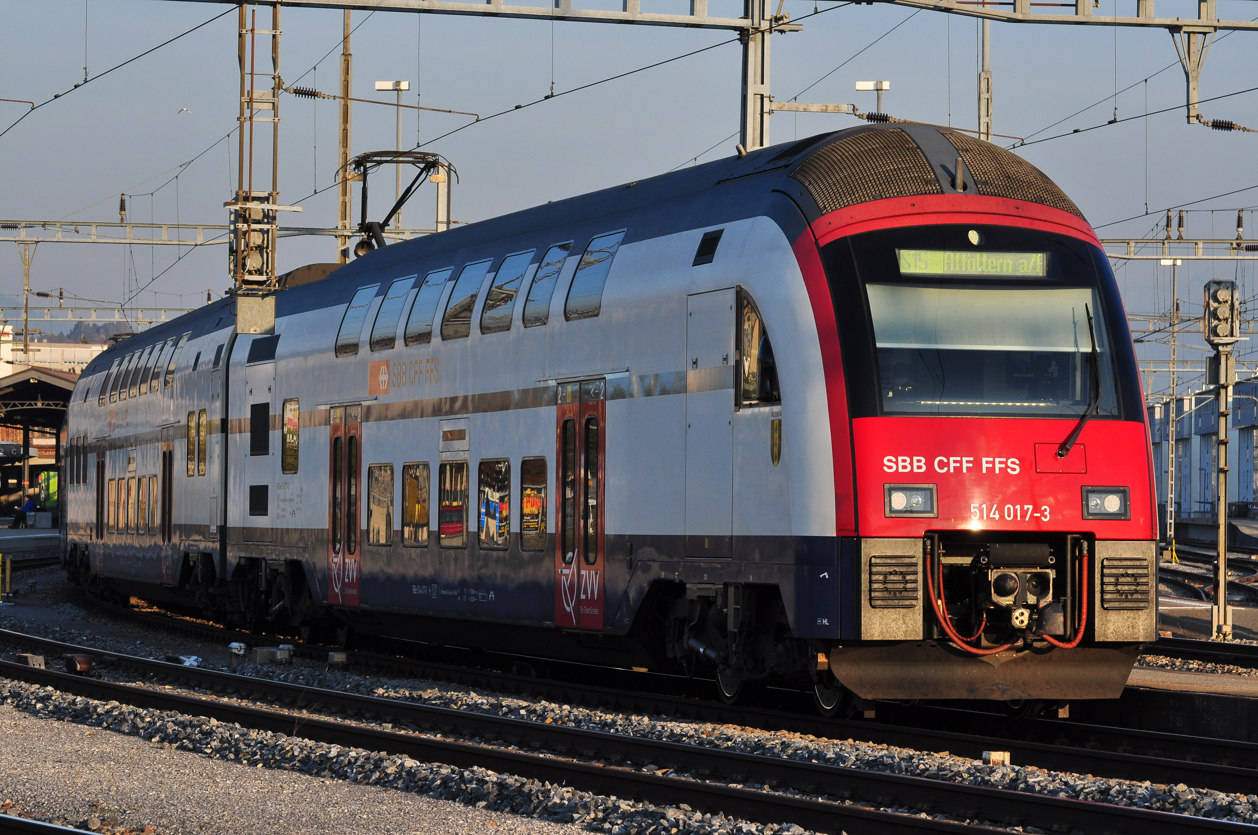 SBB RABe 514 of the S-Bahn Zürich's S15 line at the train station in Rapperswil (Switzerland), as seen from Seedamm.